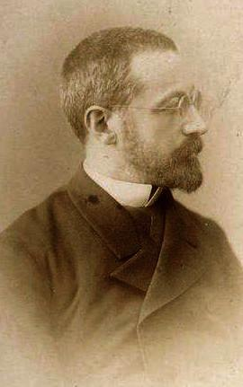 José Villa-Amil's portrait